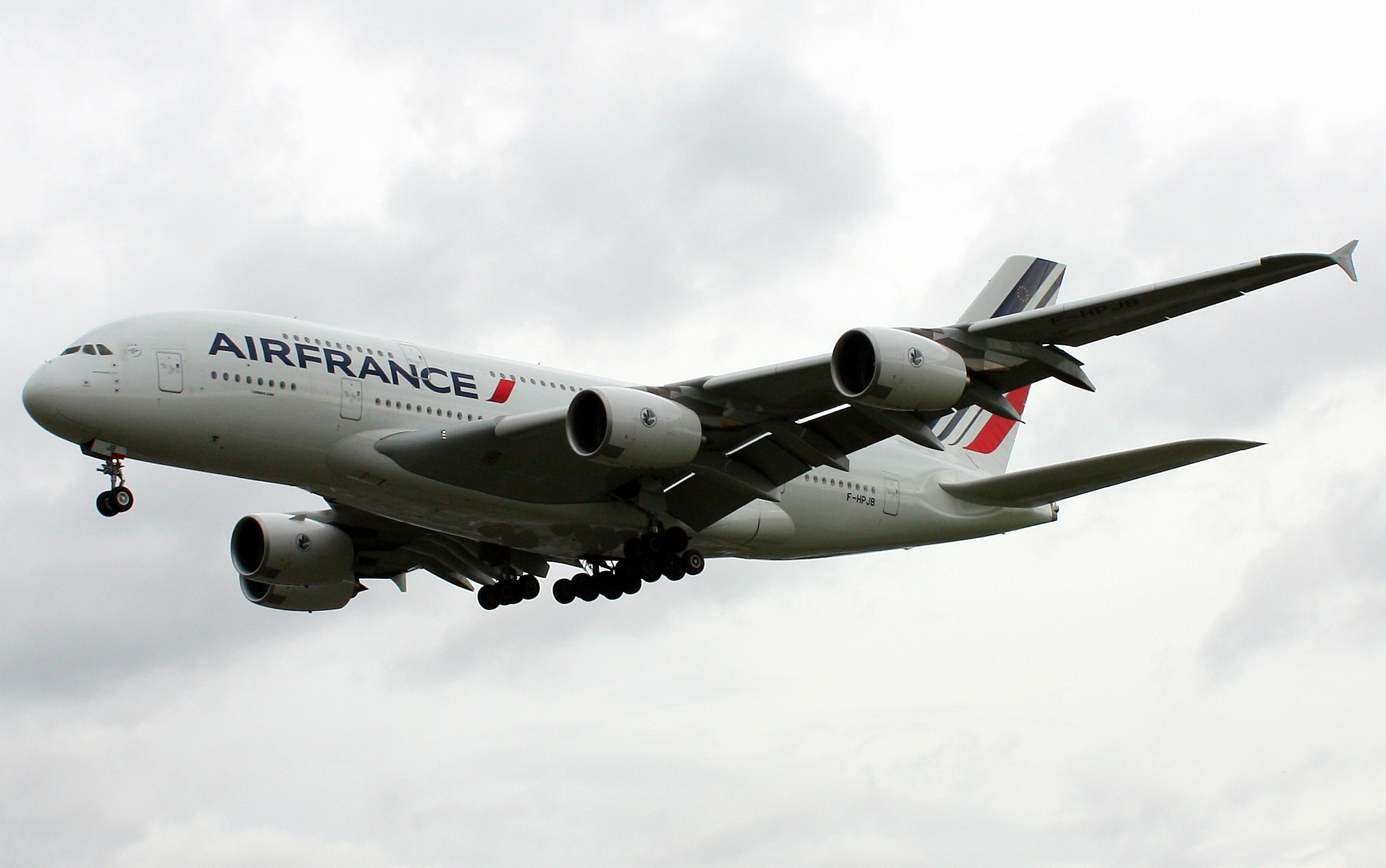 Air France A380 F-HPJB landing at London Heathrow (LHR).